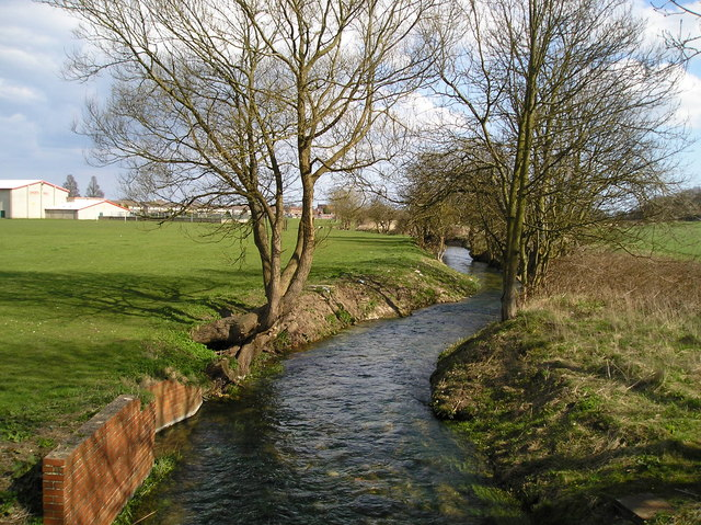 The Gypsey Race, from the A165, Bridlington, East Riding of Yorkshire, England.